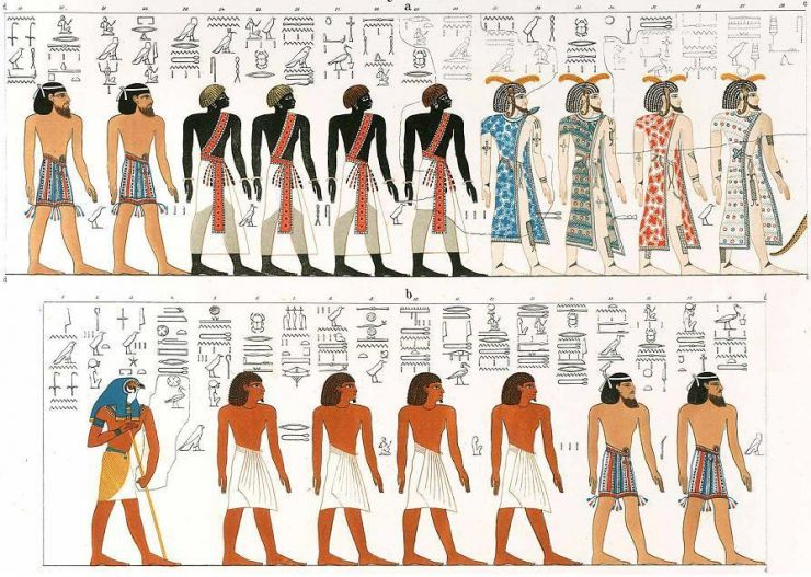 Amazighs & egyptiens